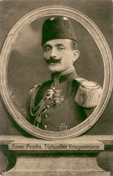 Enver Pasha, depicted on First World War period German postcard